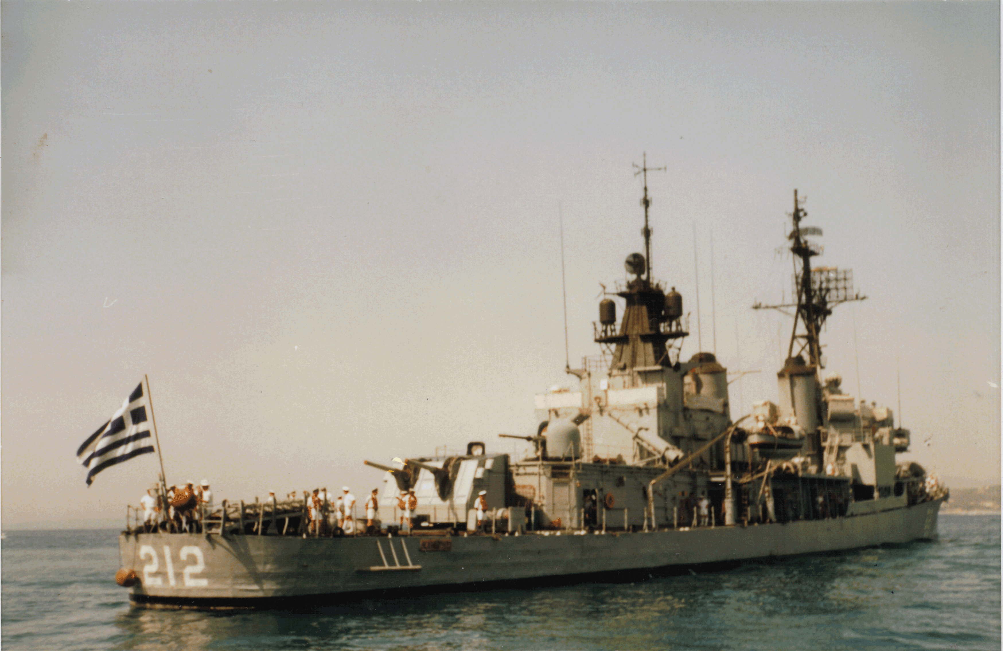 HS Kanaris D212 of Hellenic Navy (Greek Navy) (former USS Stickell DD888) taken in early 90s (decommissioned in 1993). Photo taken by me.